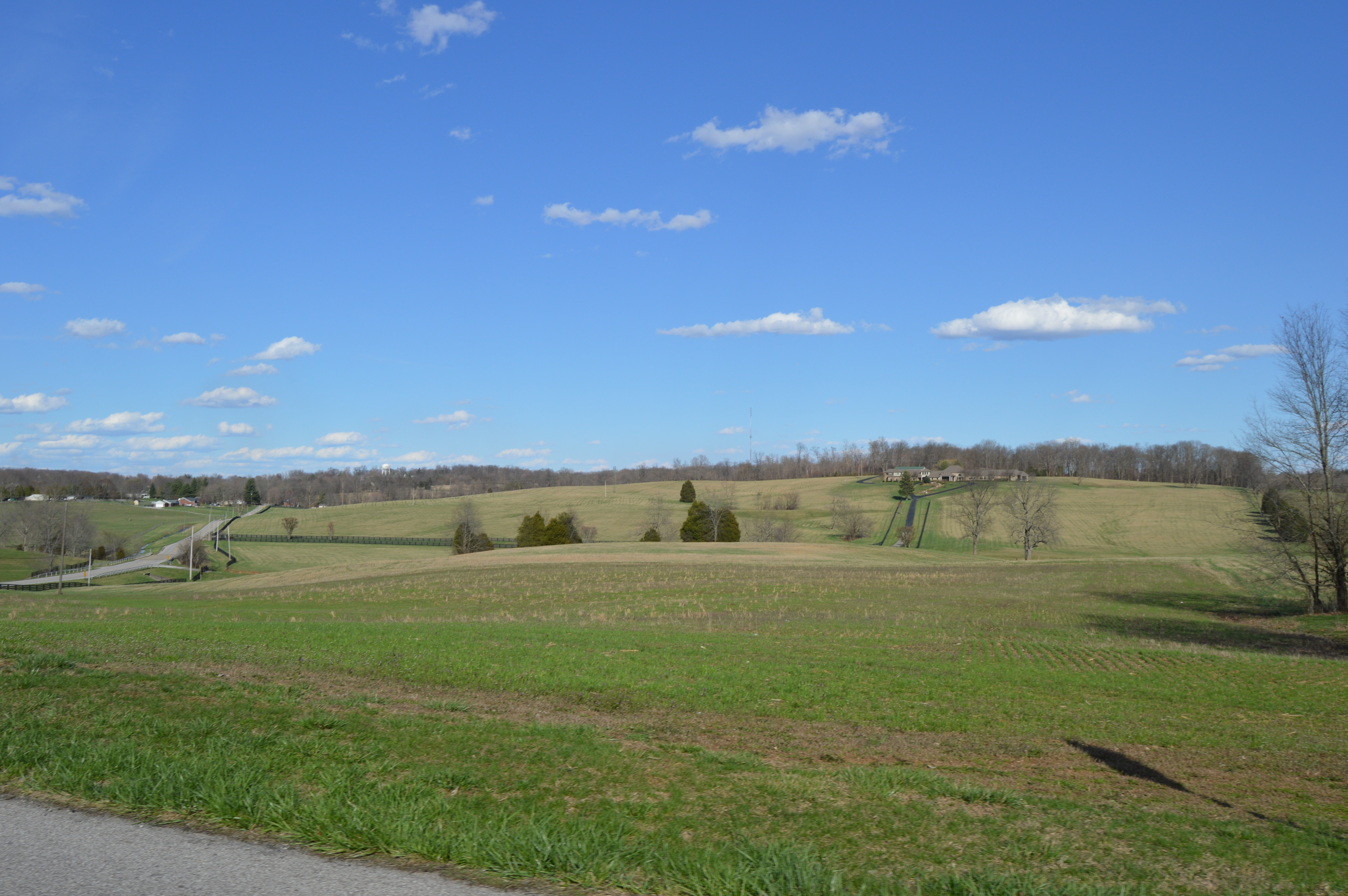 Fields in Greenville Township, Floyd County, Indiana, United States, seen looking east from Georgetown-Greenville Road just south of Greenville.